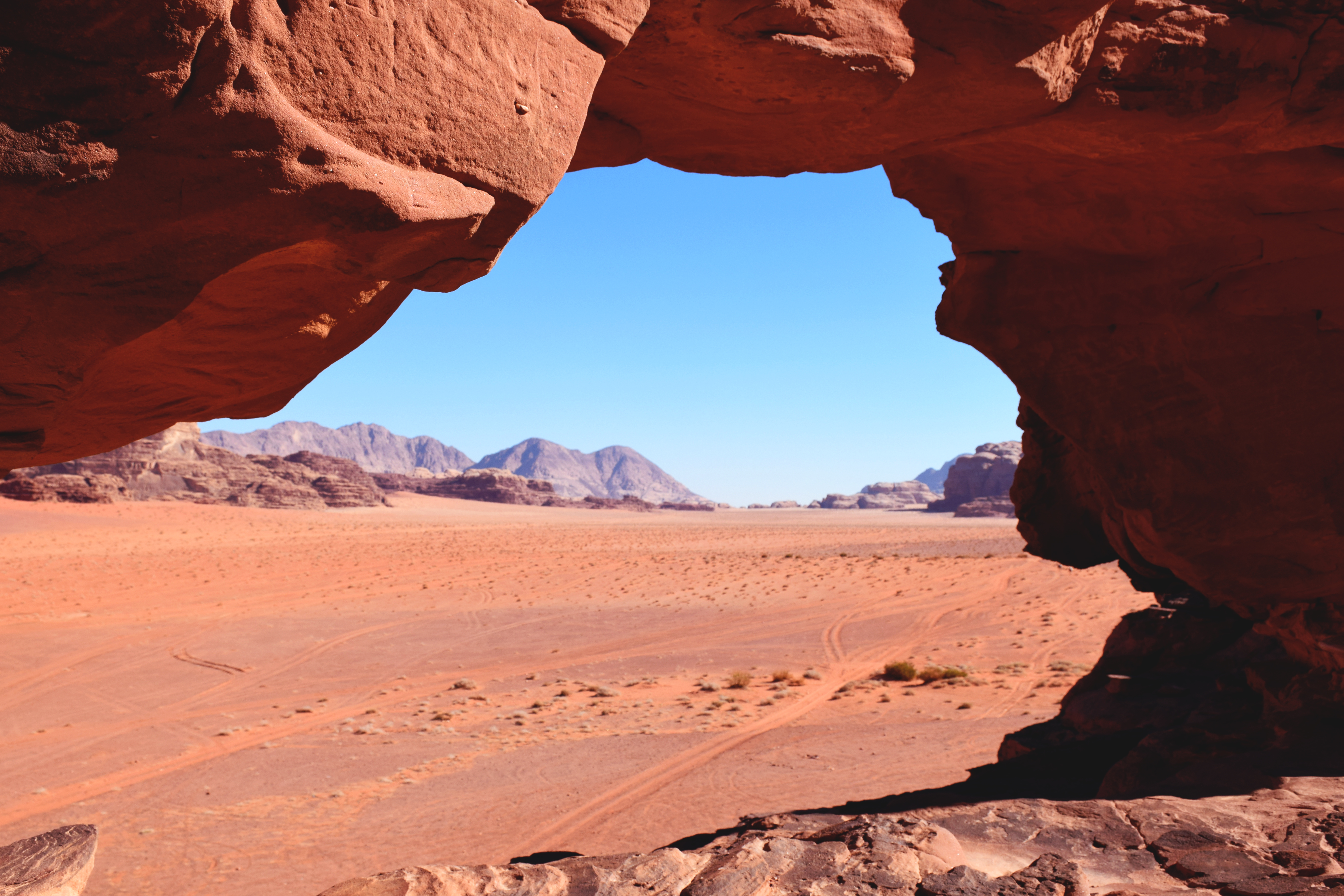 Mountains of Wadi Rum seen through a hole formed by rocks.